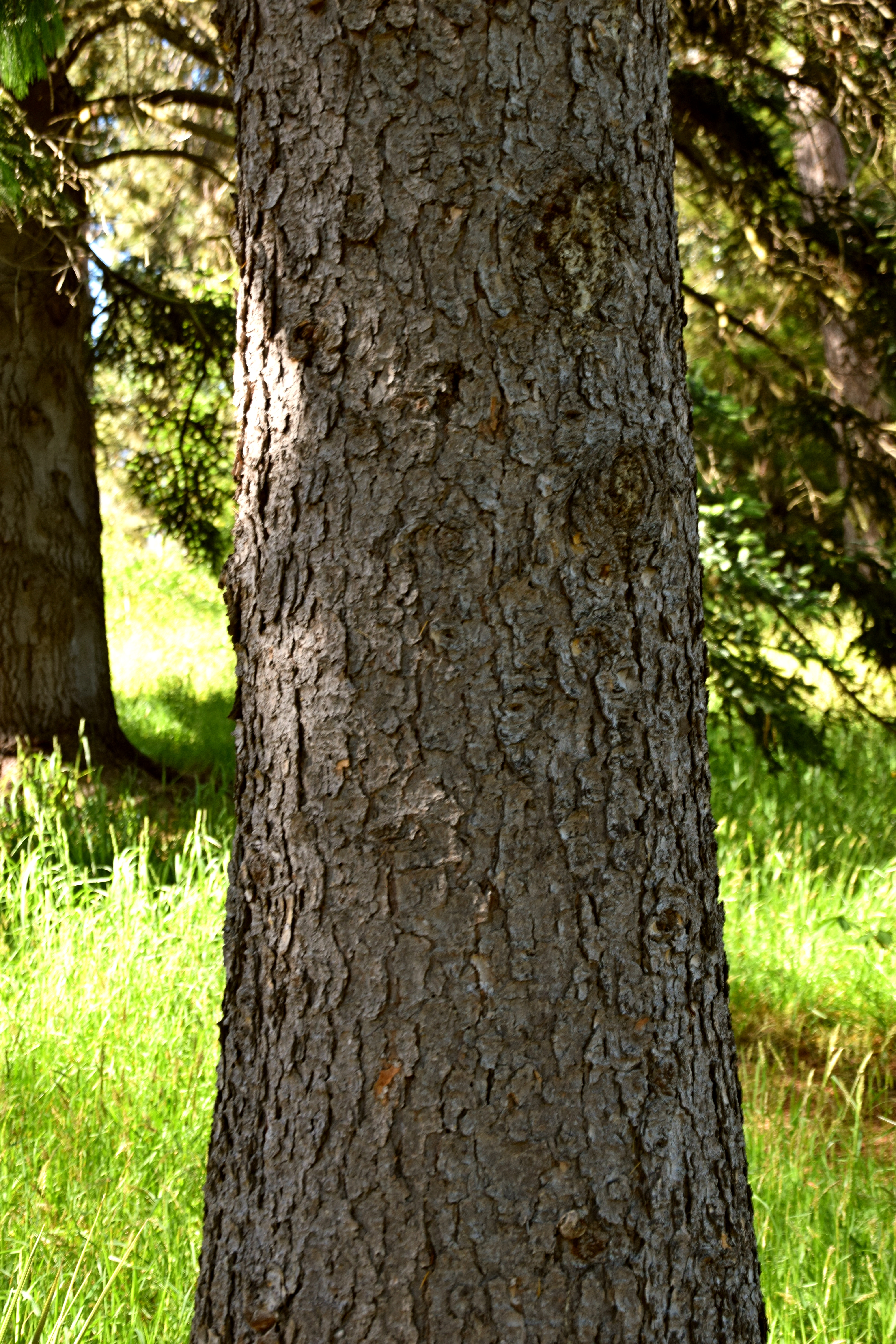 Picea smithiana in Dunedin Botanic Garden, Dunedin, New Zealand